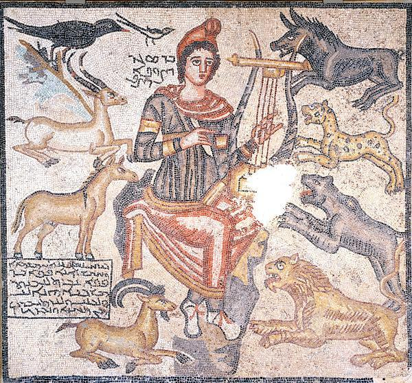 Roman marble mosaic, A.D. 194; Eastern Roman Empire, near Edessa